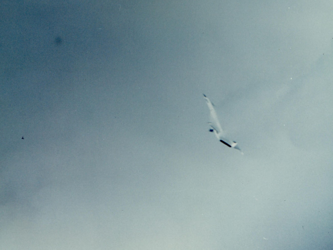 North American XB-70A Valkyrie entering a flat spin after a mid-air collision that destroyed one of its vertical tails.